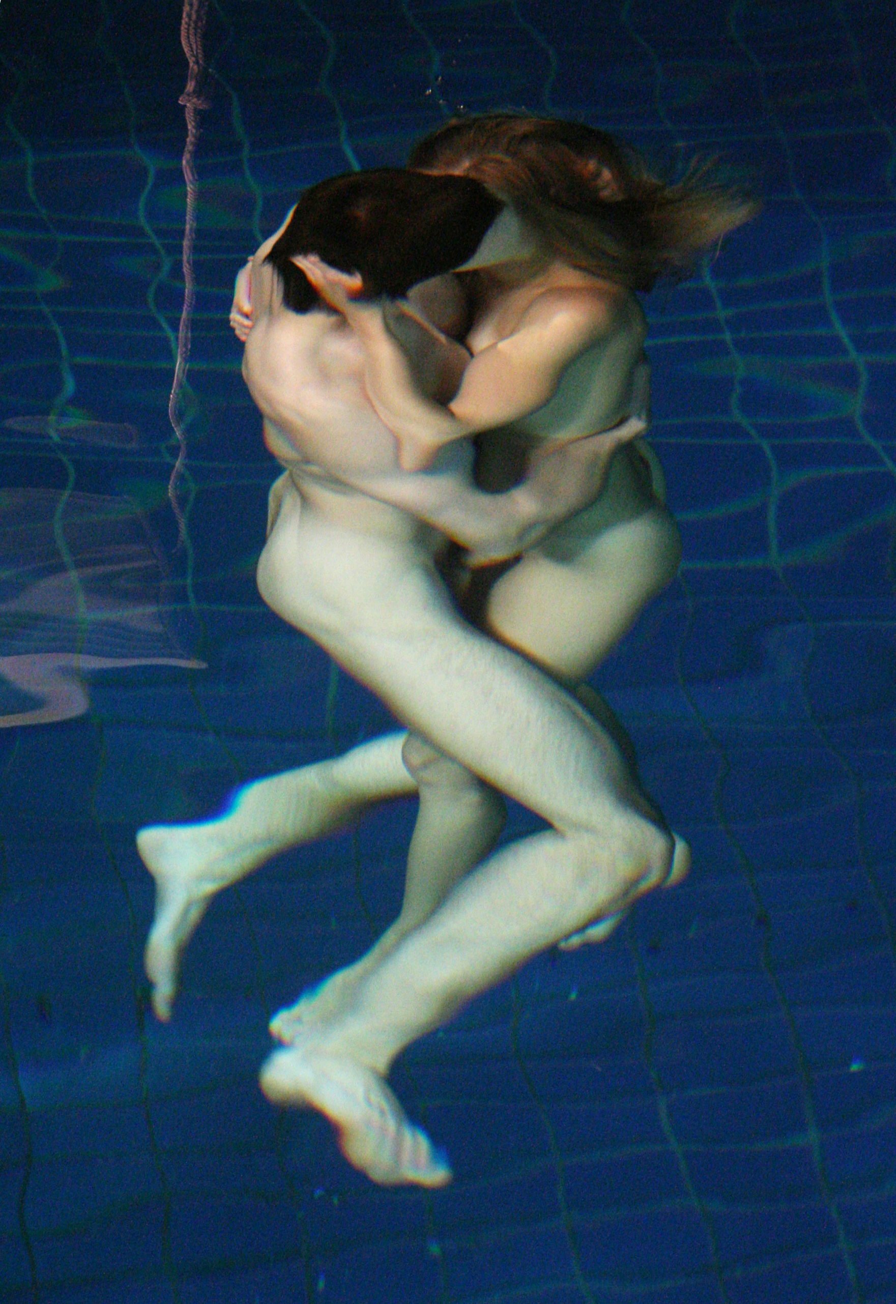 Underwater kissing scene from the short film "The Well" by Sasha Kargaltsev.